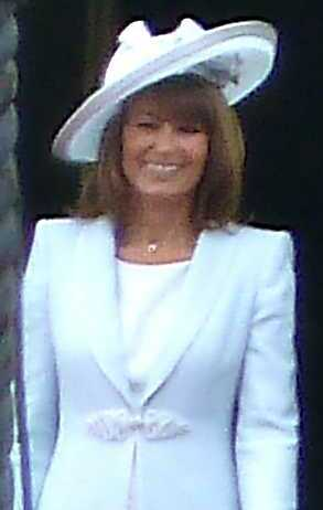 Carole Elizabeth Middleton, mother of Kate Middleton, on the balcony of Buckingham Palace